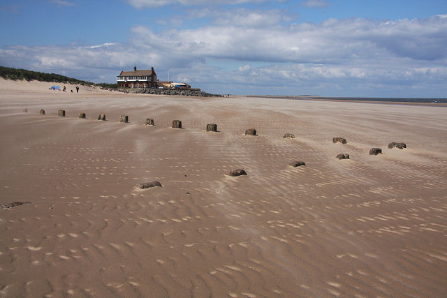 Brancaster beach Remains of an old groyne, with the clubhouse of the Royal West Norfolk Golf Club behind.